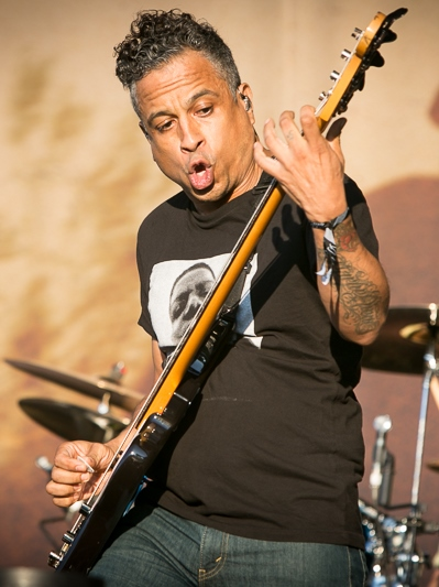 Sergio Vega performing with Deftones at Zürich Openair on 29 August 2013